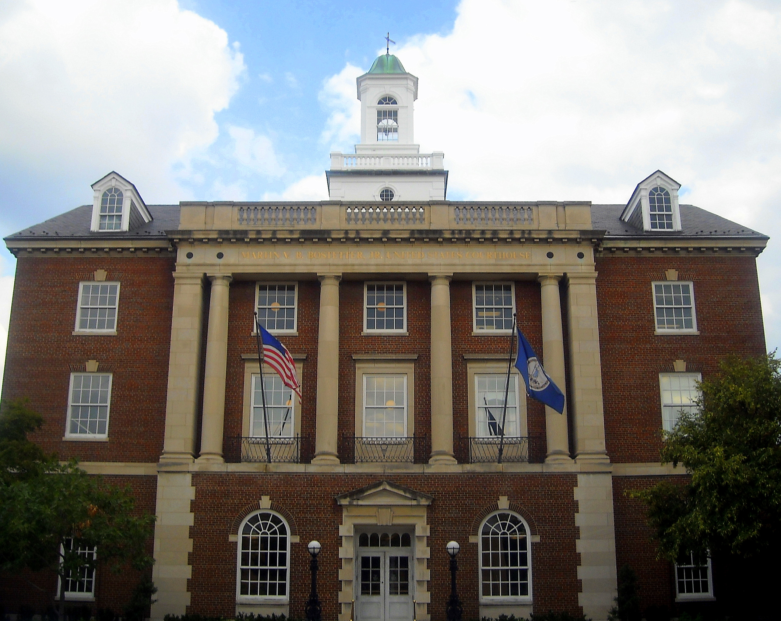 Martin V.B. Bostetter, Jr. United States Courthouse at 200 S. Washington Street in Old Town Alexandria, Virginia. The building is a contributing property to the Alexandria Historic District, a National Historic Landmark.